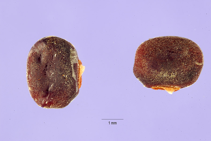 Seeds of Sphenostylis stenocarpa